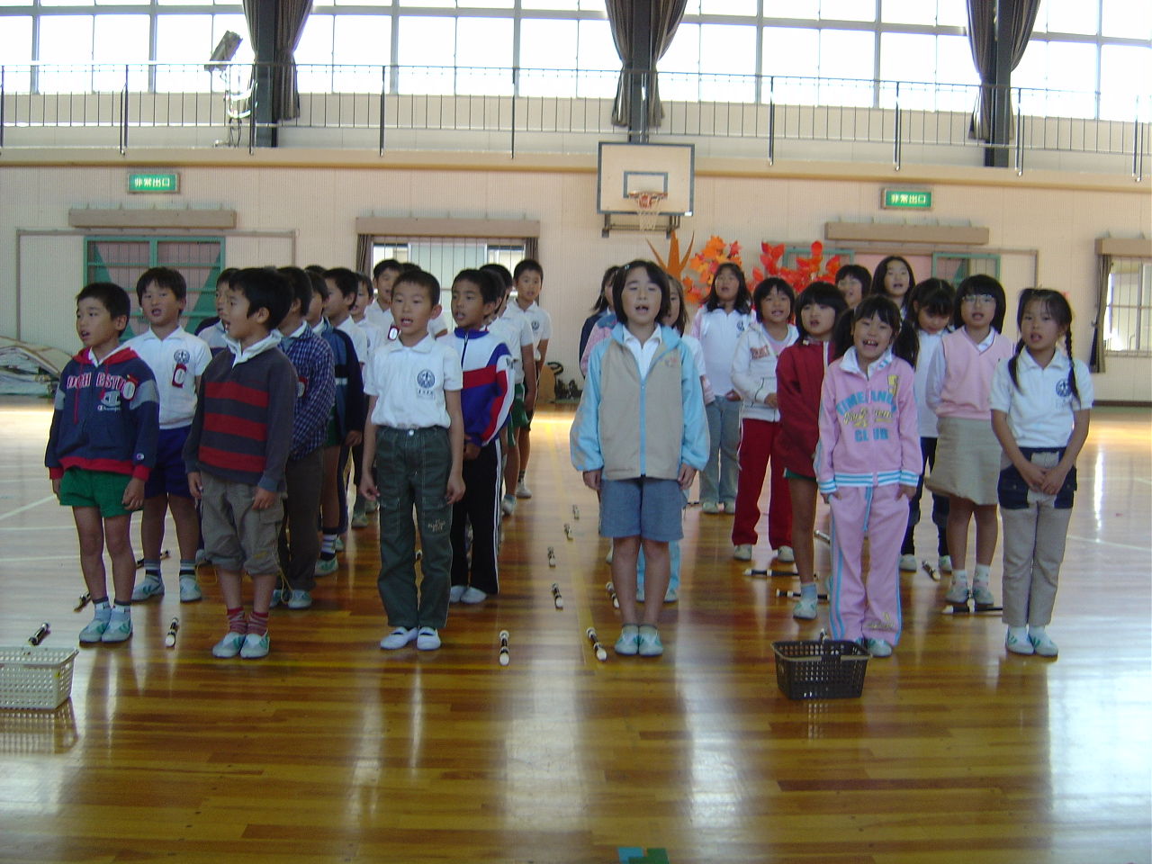 Students singing in a gym at a Japanese elementary school.